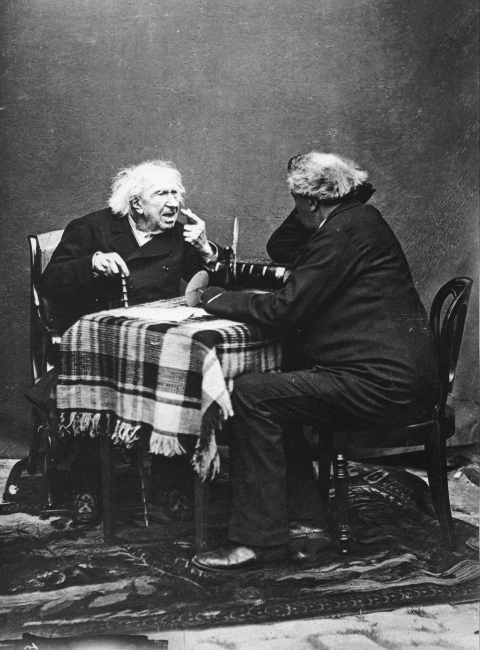 Photography of Michel Eugène Chevreul by Félix Nadar